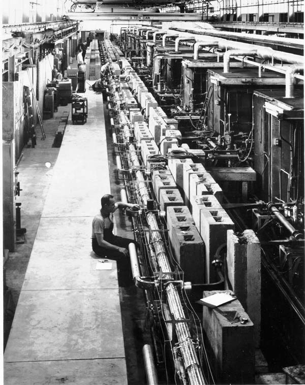 Early in the 1950s, researchers at Stanford University proposed building an accelerator that would accelerate electrons to an energy equivalent of one billion volts. The Mark III linear electron accelerator, which was funded by the Office of Naval Research, allowed Robert Hofstadter to study the charge and magnetic structure of nuclei and nucleons, work that earned him the 1961 Nobel Prize in Physics